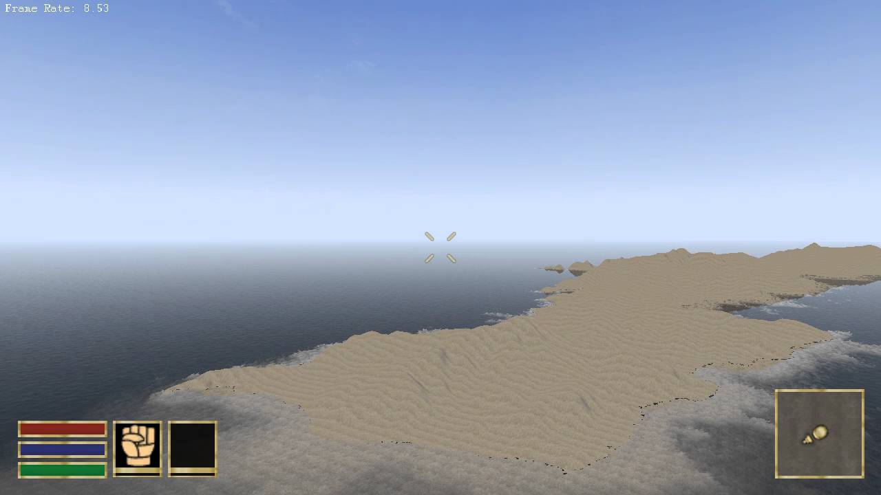 openMW with example suit 3